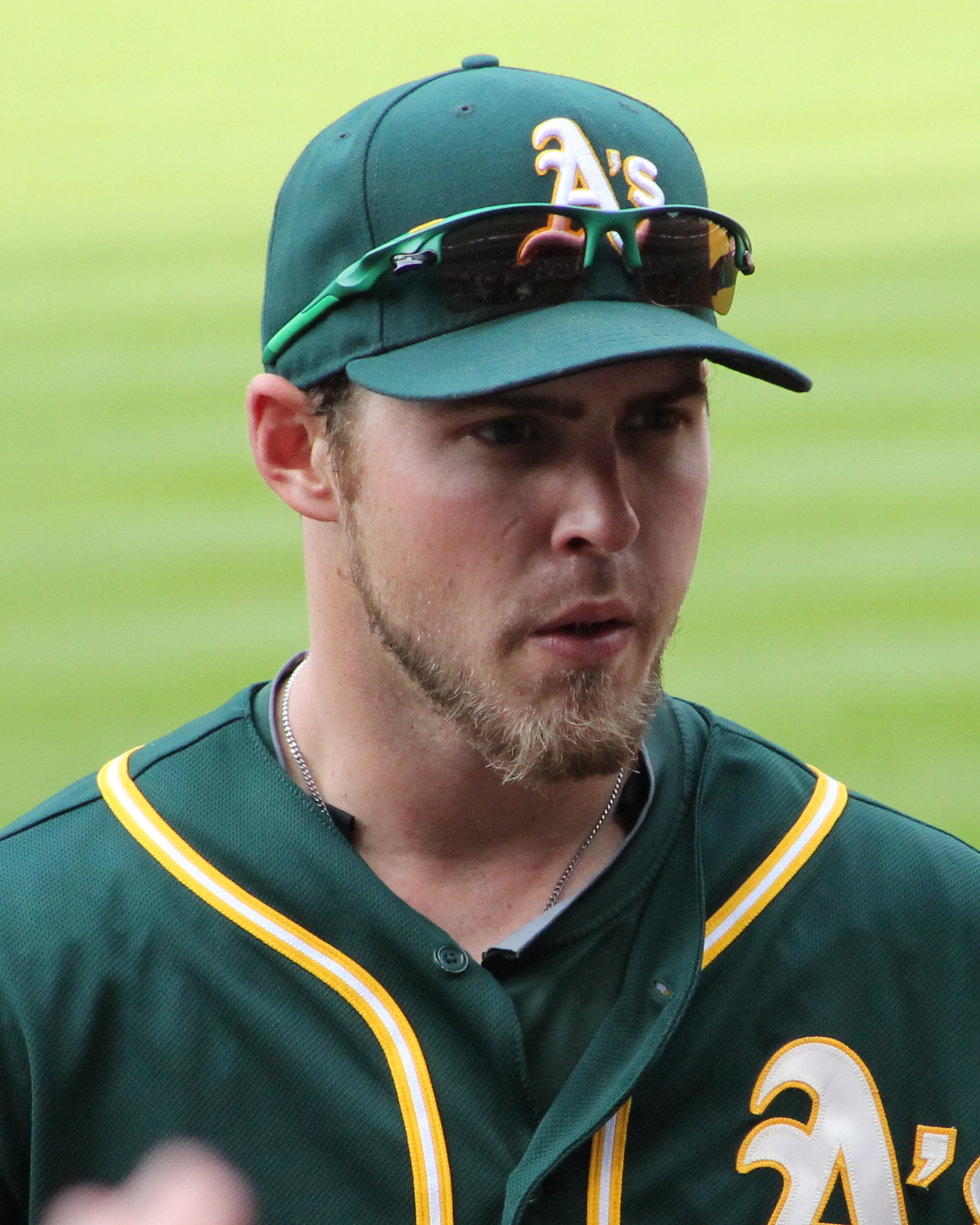 Oakland Athletics player Josh Reddick at Minute Maid Park in April 2014.